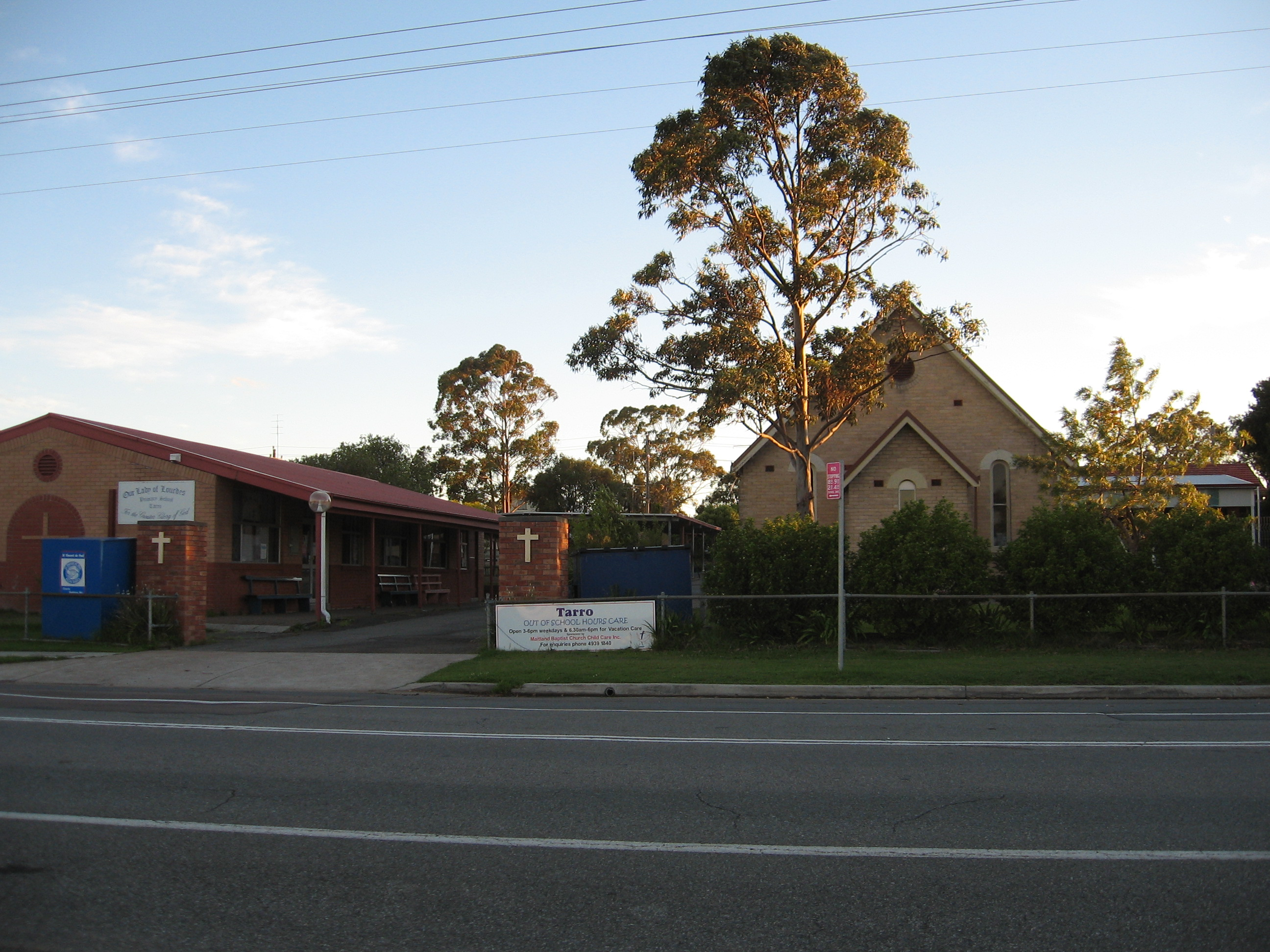 Our Lady of Lourdes, Catholic Church and School, Tarro, 2322, New South Wales, Australia